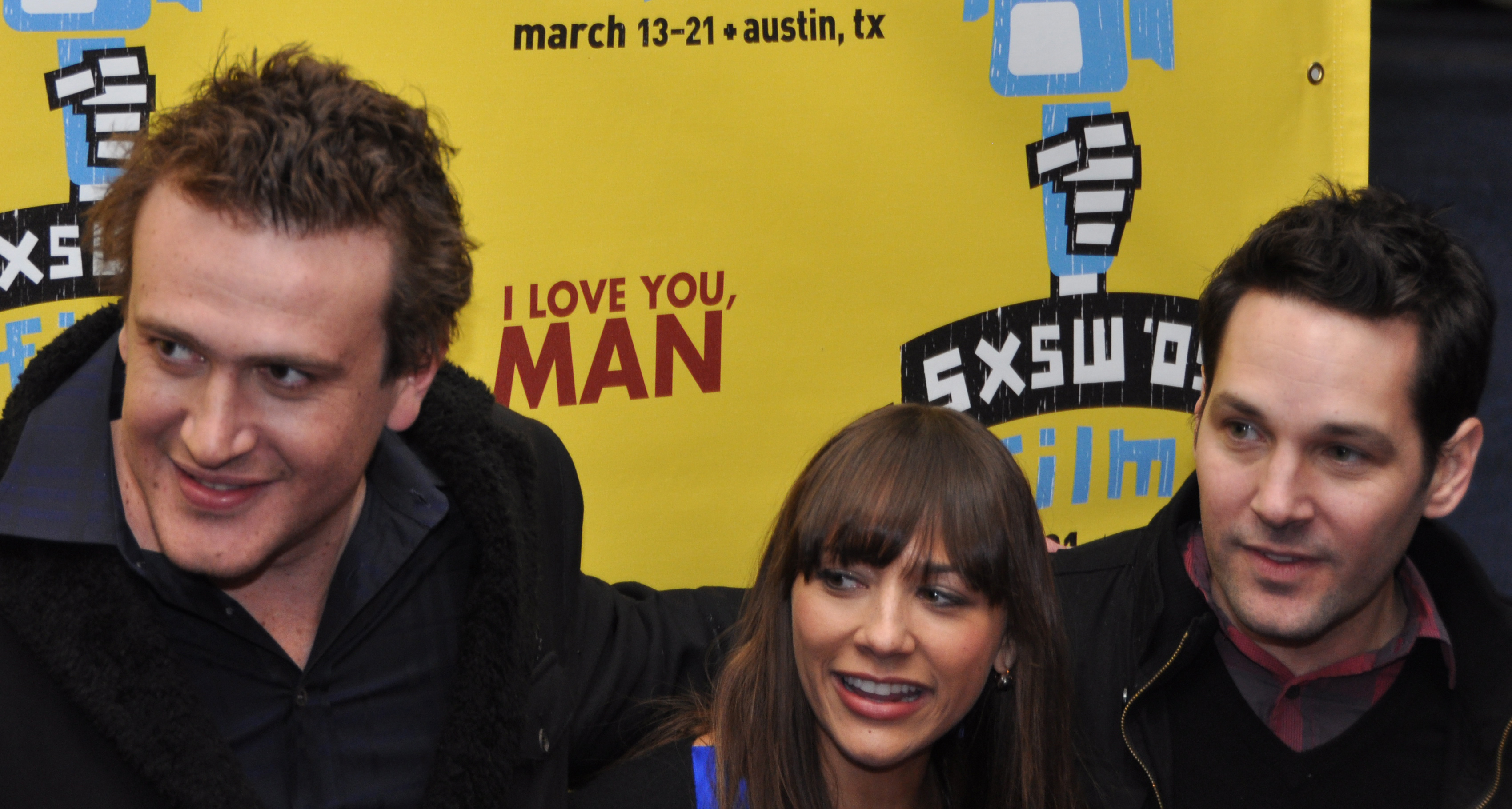 Jason Segel, Rashida Jones, and Paul Rudd at the Austin, TX premiere of I Love You, Man